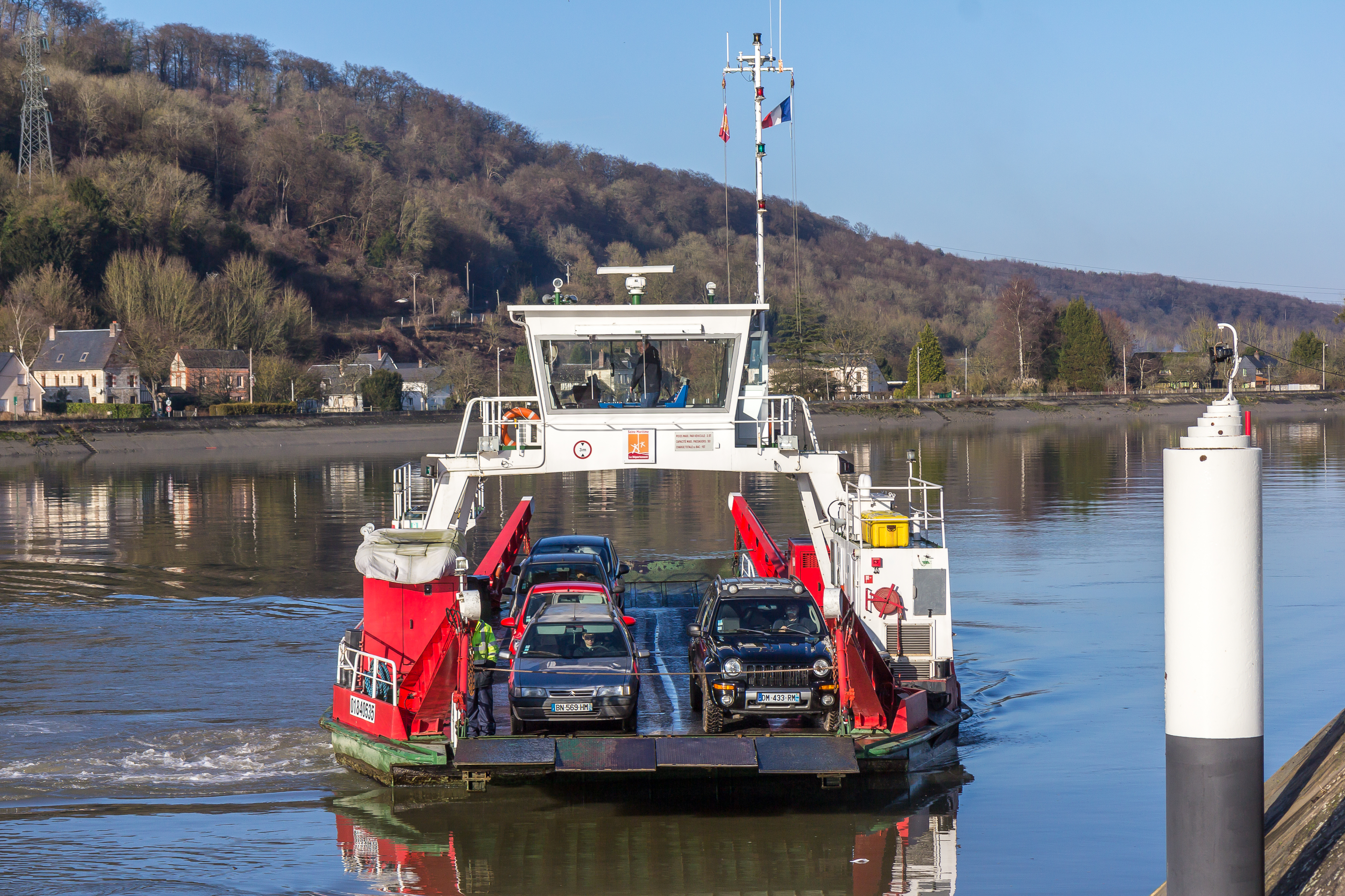 Ferry Bac 17 - ENI 01840535 - on River Seine, Jumièges